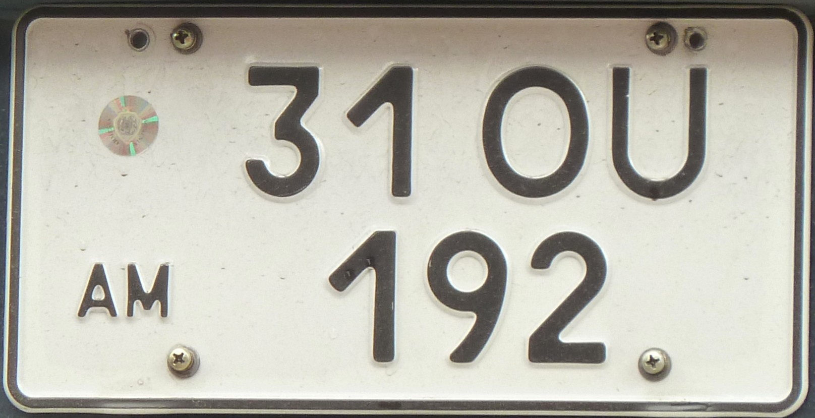 Two-lined license plate from Armenia